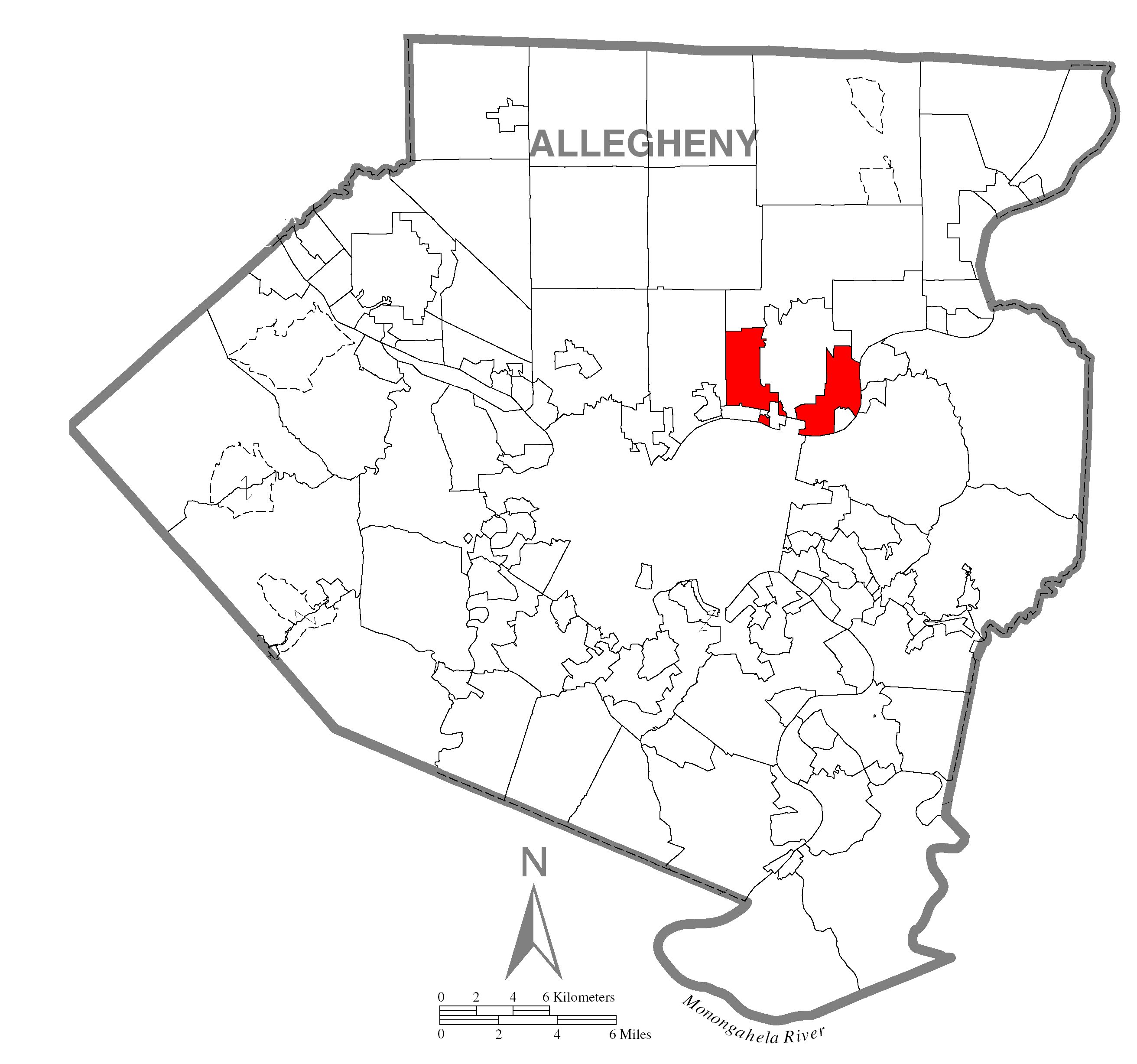 A map of Allegheny County showing O'Hara Township, Pennsylvania (alternate) highlighted on the map.